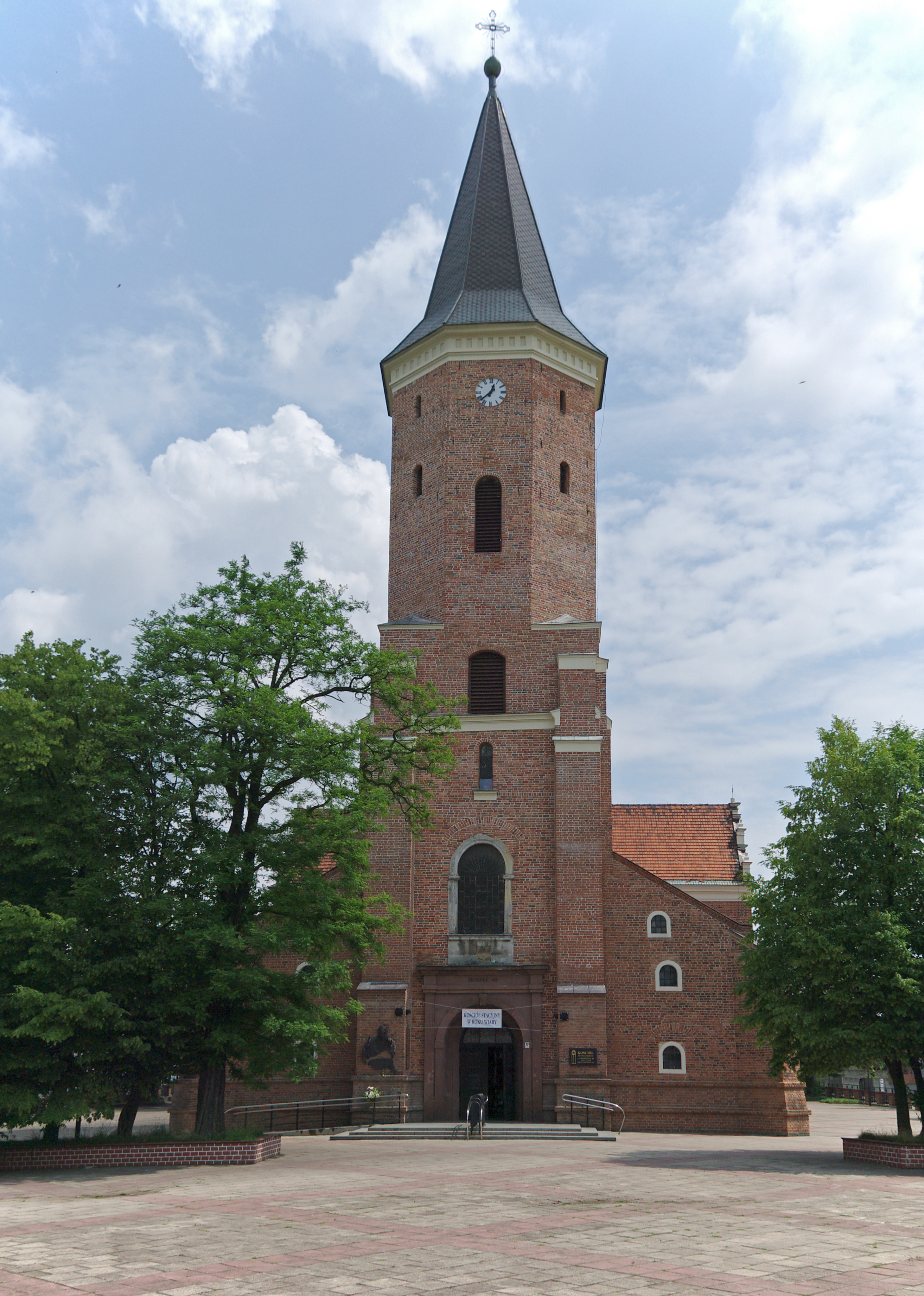 Saints Matthew and Lawrence church in Pabianice